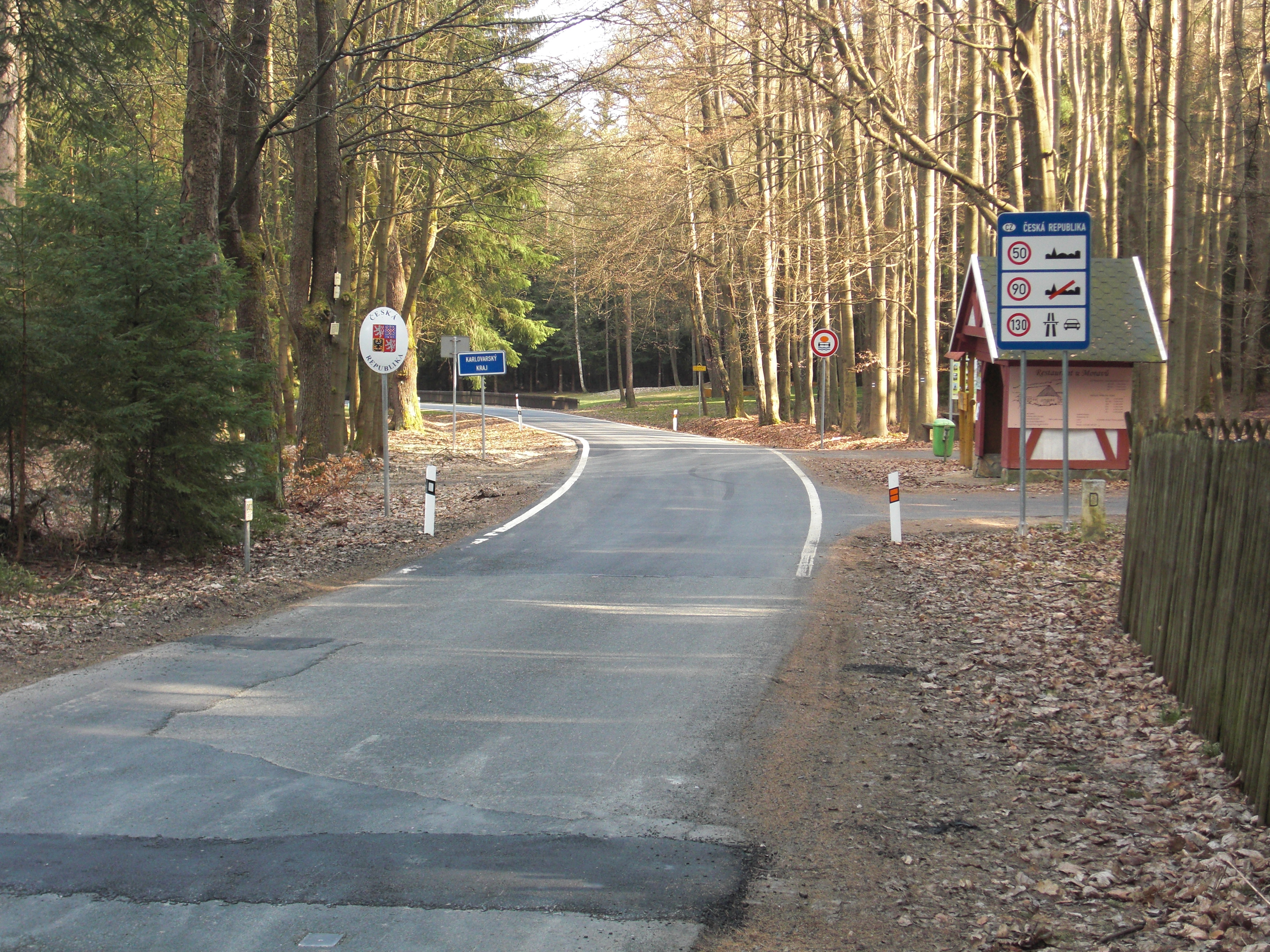 Border crossing